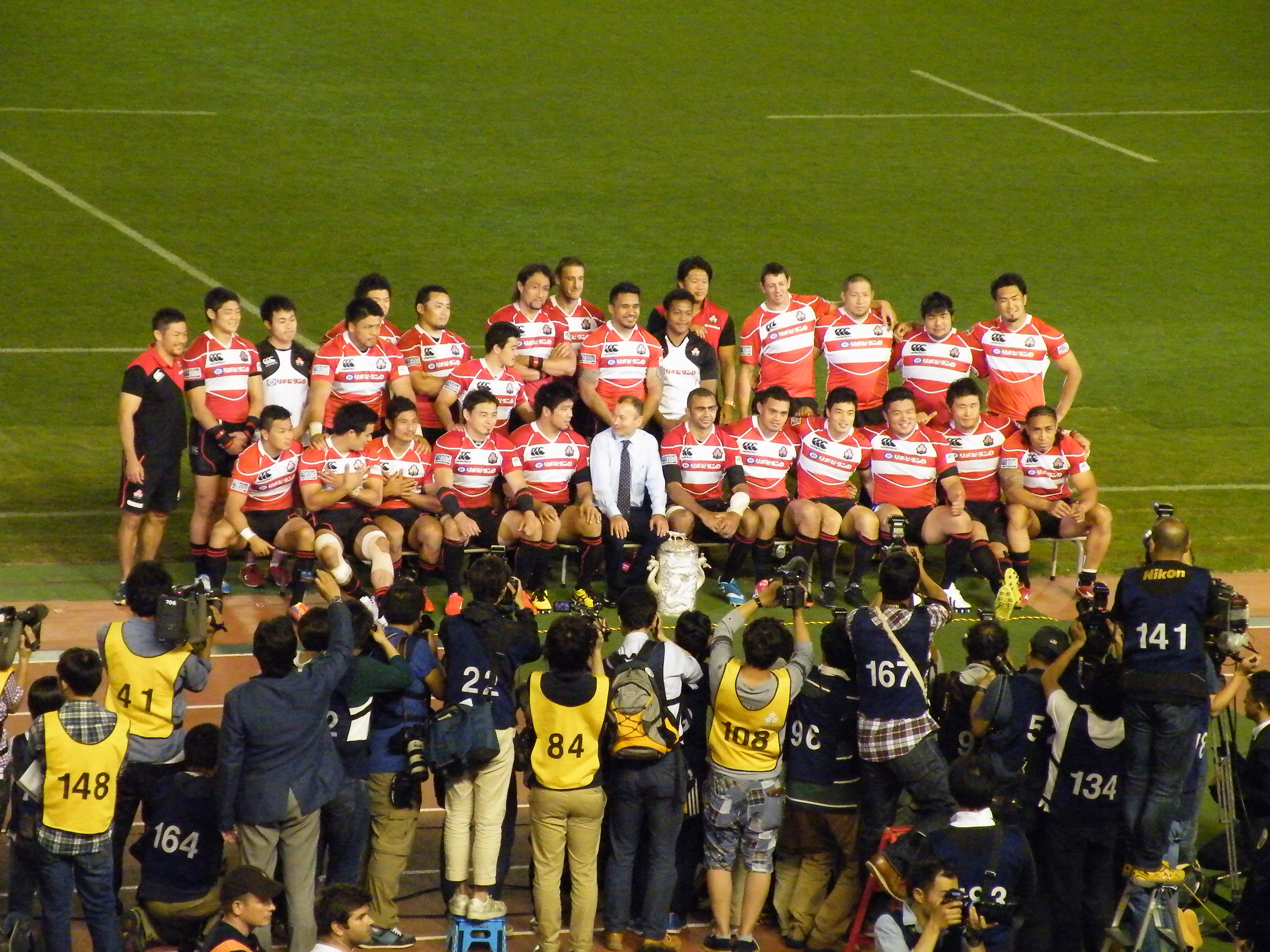 2014 Asian Five Nations, Japan v. Hong Kong (National Olympic Stadium, Japan)